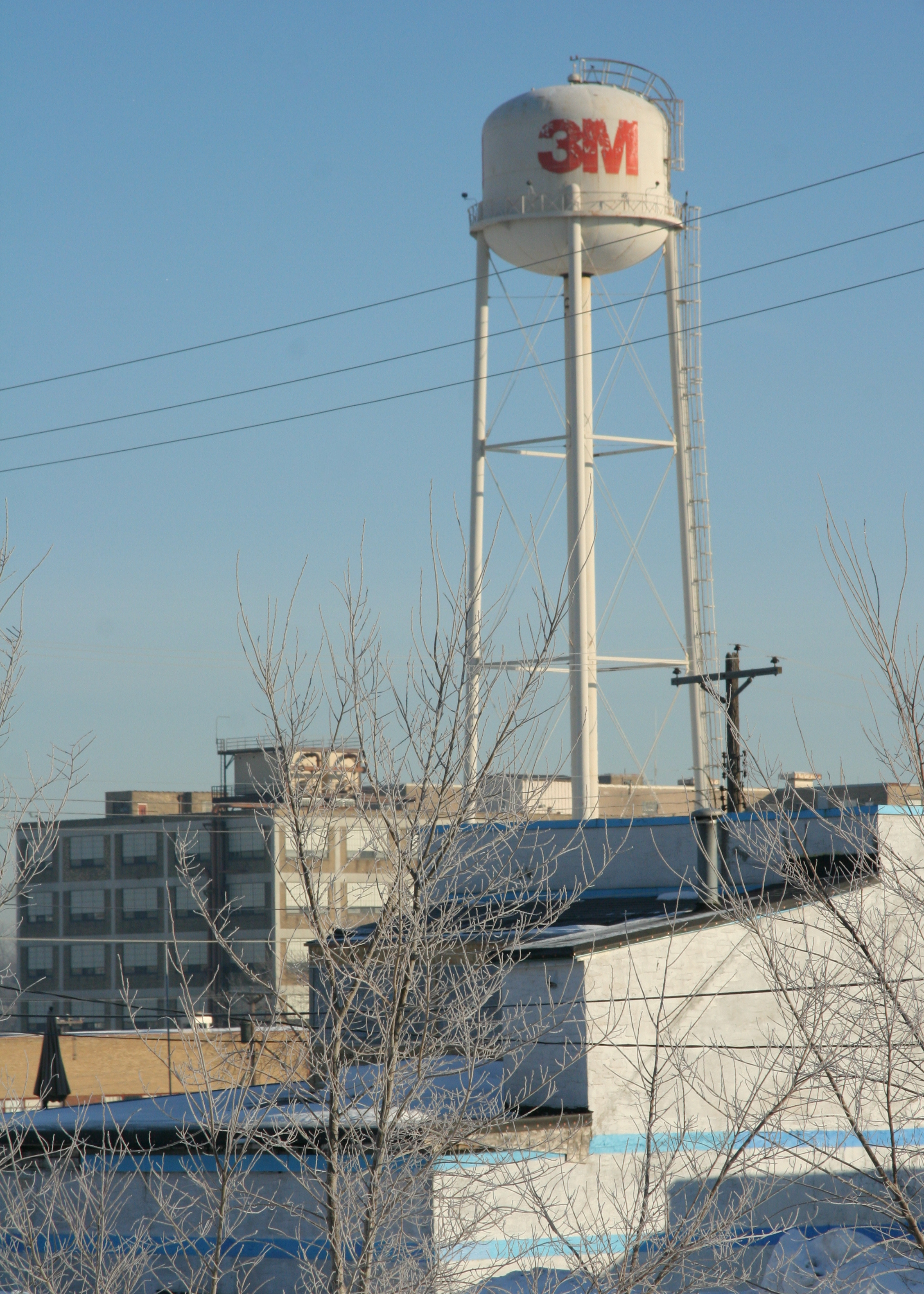 3M water tower and operating facility in Saint Paul, Minnesota